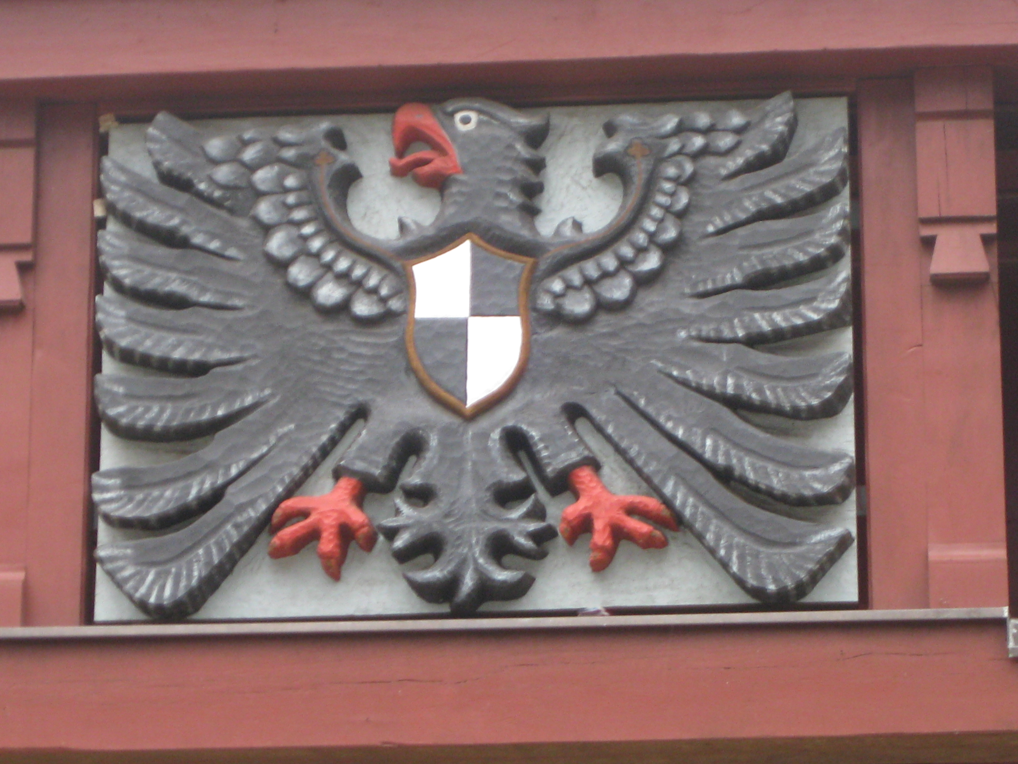 Kaiserbahnhof in Joachimsthal. Detail Coat of arms above the entrance.